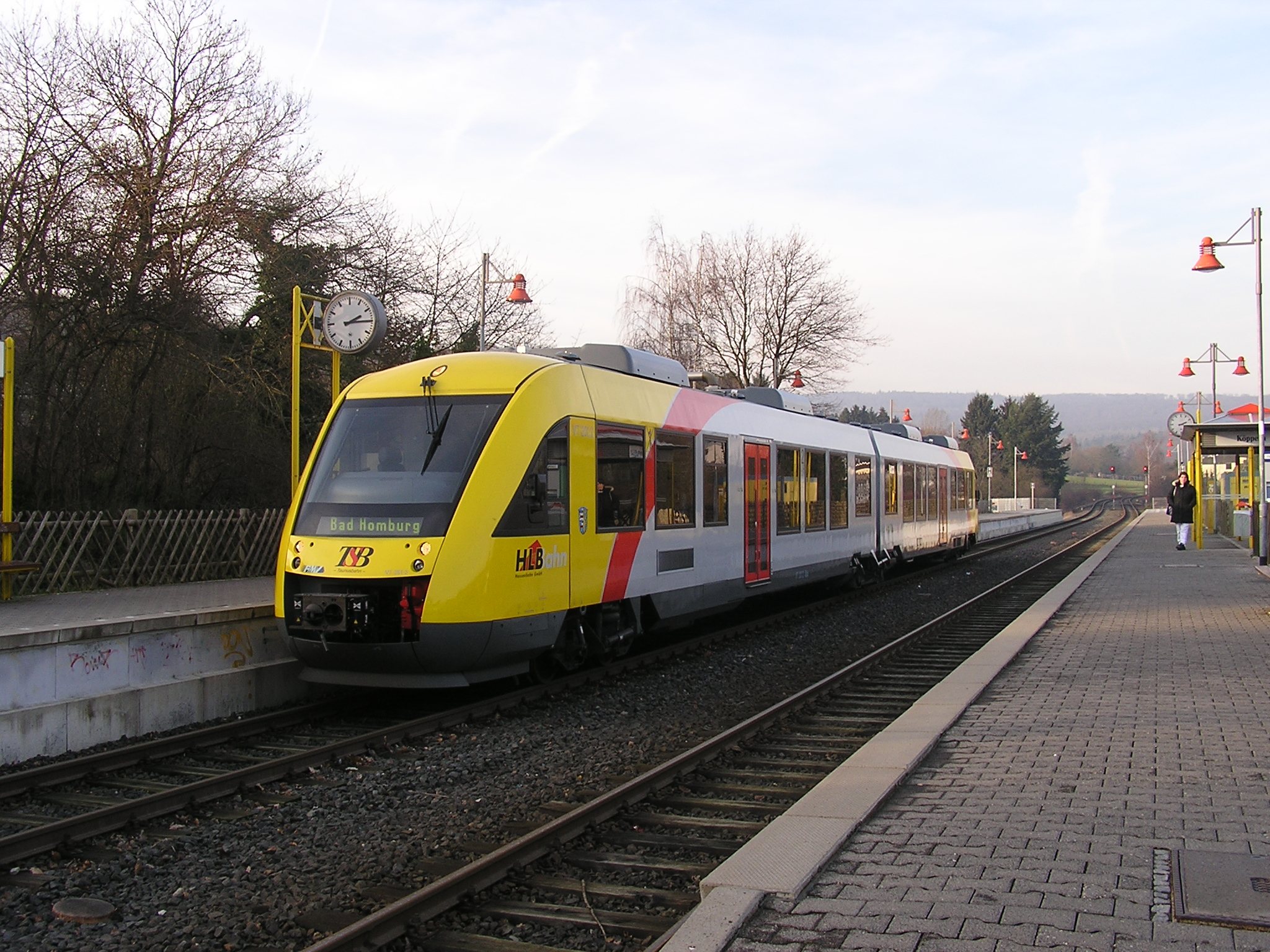 LINT 41 on the Taunusbahn in the station Friedrichsdorf-Köppern